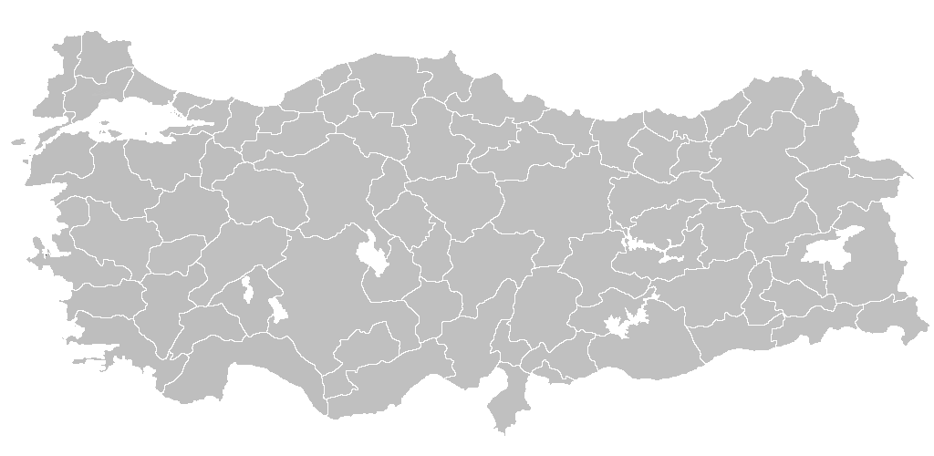 Blank map of Republic of Turkey's provinces. The regions are carefully separated on per pixel basis and ready for filling in with a paint tool.